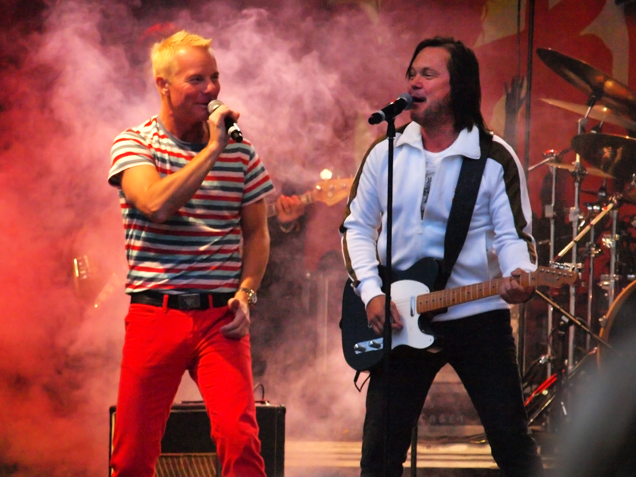 Swedish pop band Style performing in Falun, Sweden. This is the 2009 setting with, from left, Christer Sandelin and Tommy Ekman.